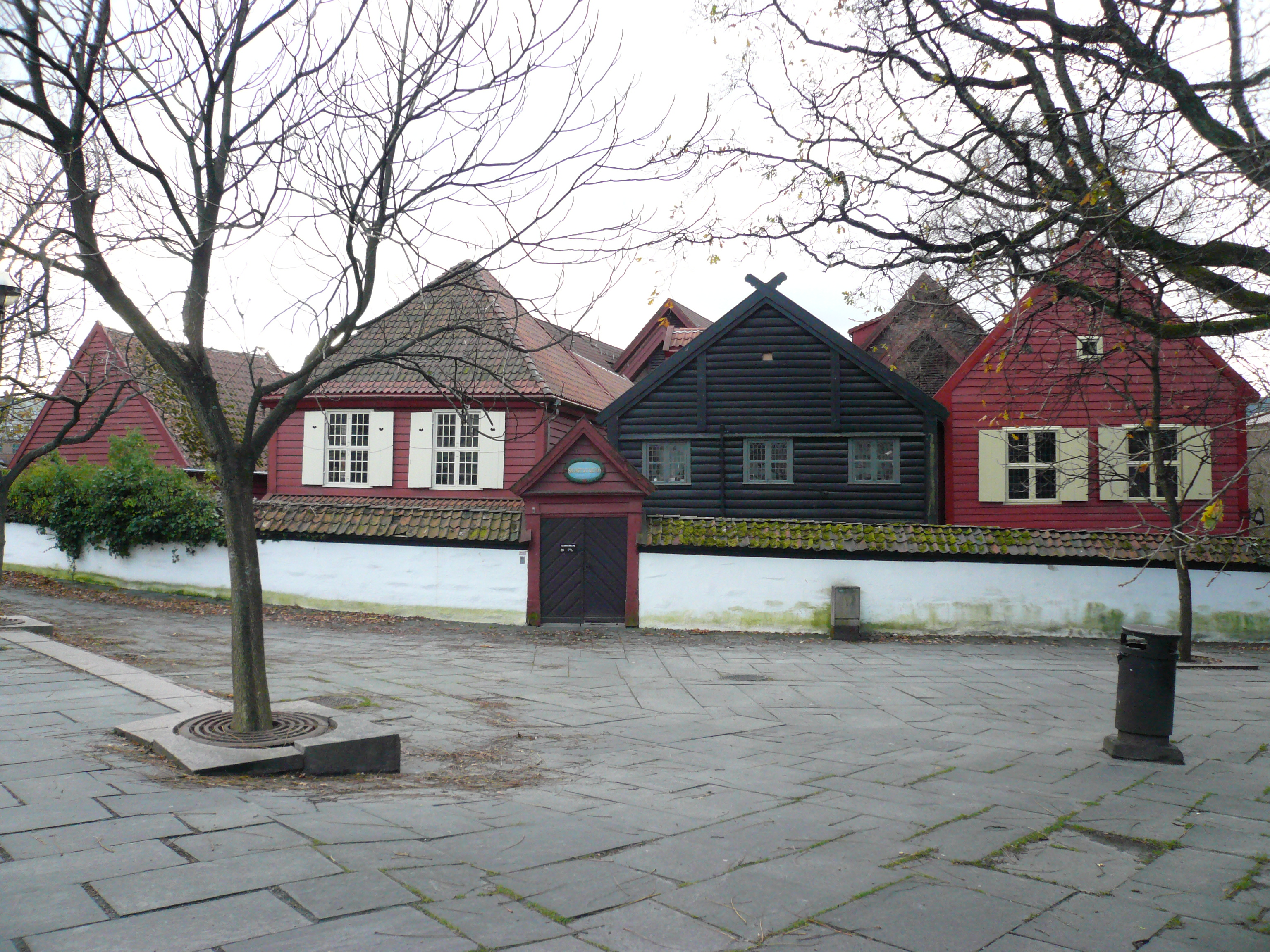 Schøtstuene, Bryggen in Bergen, Norway